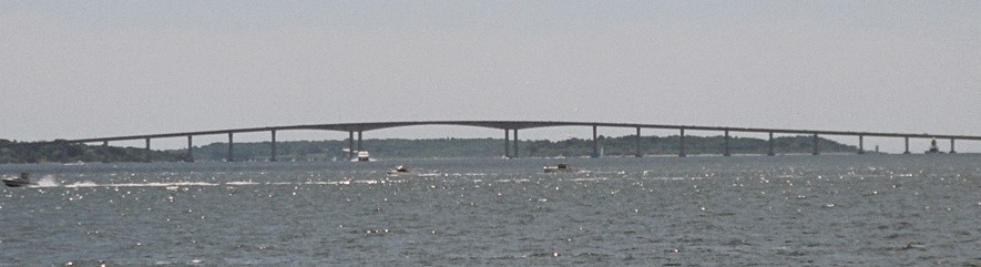 in July 2007, after the demolition of the Old .